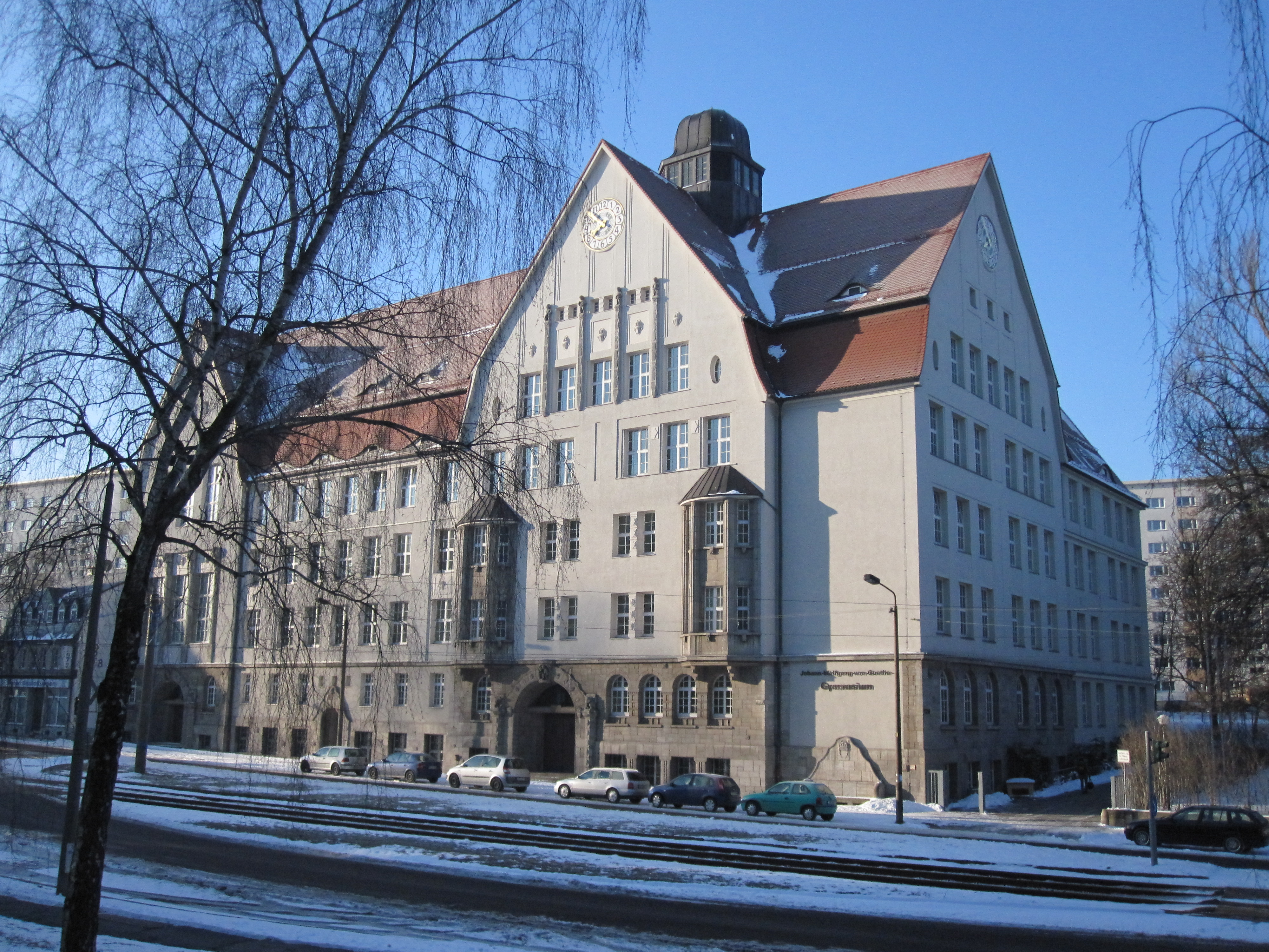 Photo of the outside of the Johann-Wolfgang-von-Goethe-Gymnasium in winter